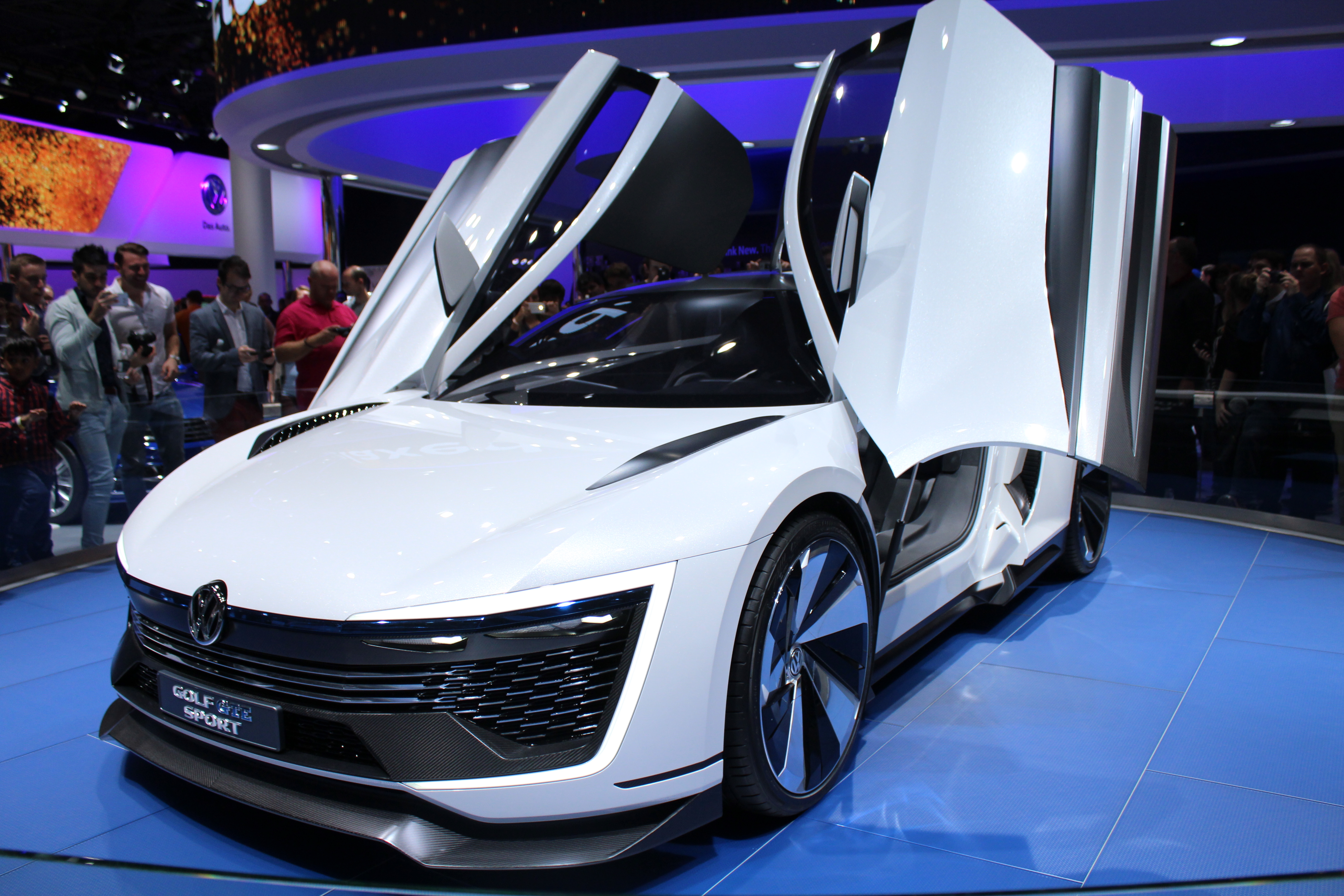 Passenger vehicles being displayed in 2015 International Motor Show Germany.